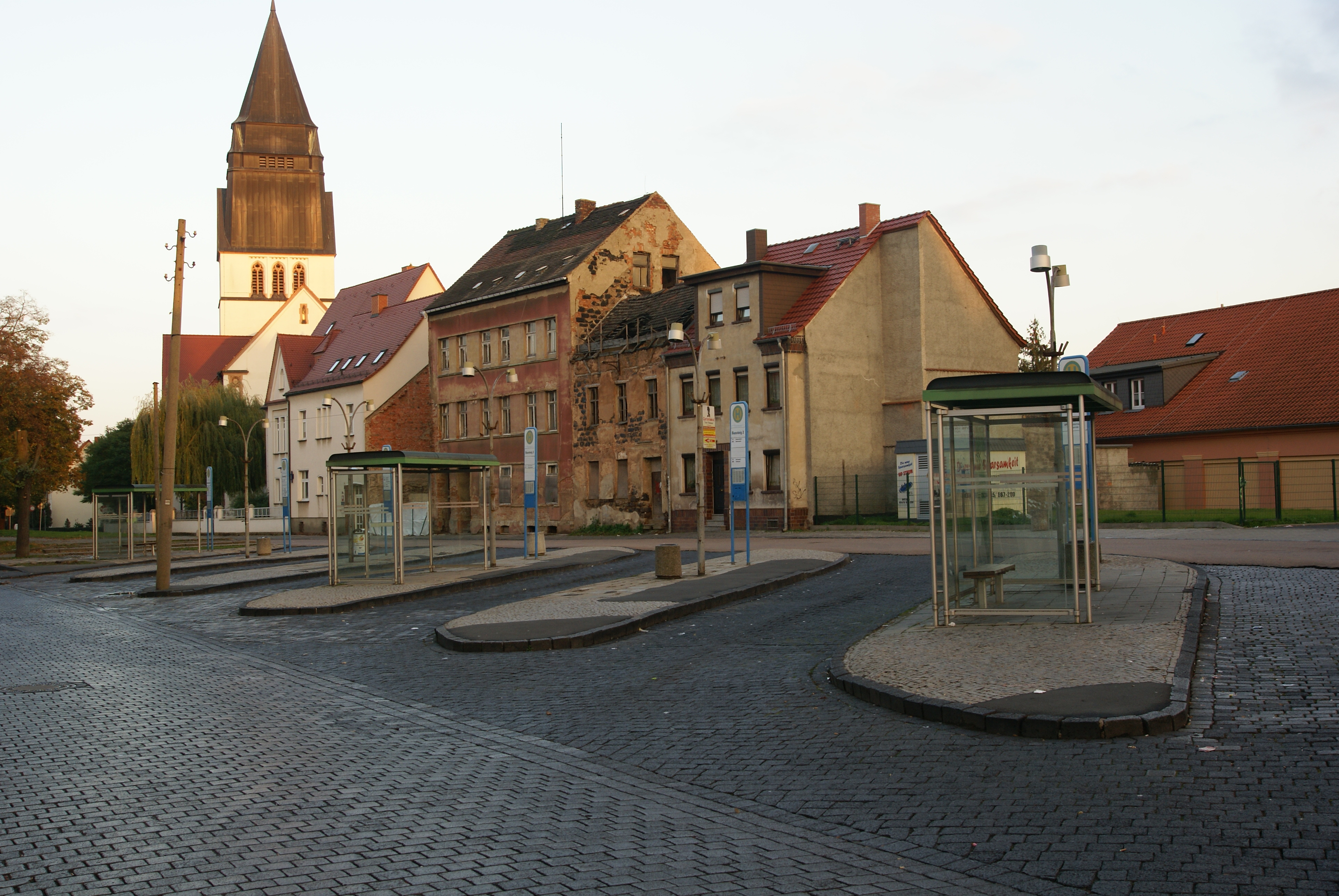 Main bus station of town of Eisleben at Klosterplatz square